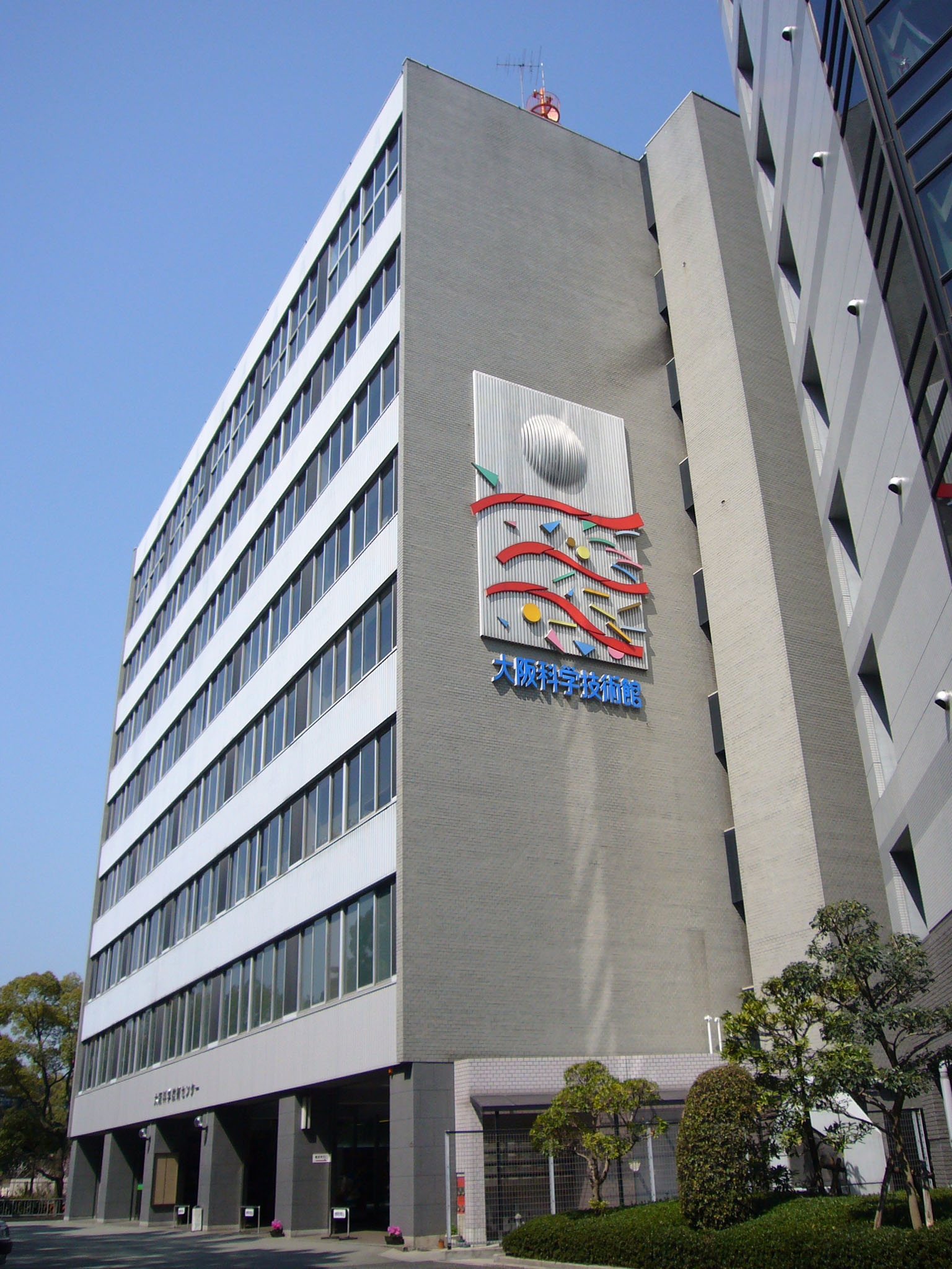 Ostec Exhibition Hall in Osaka, Japan